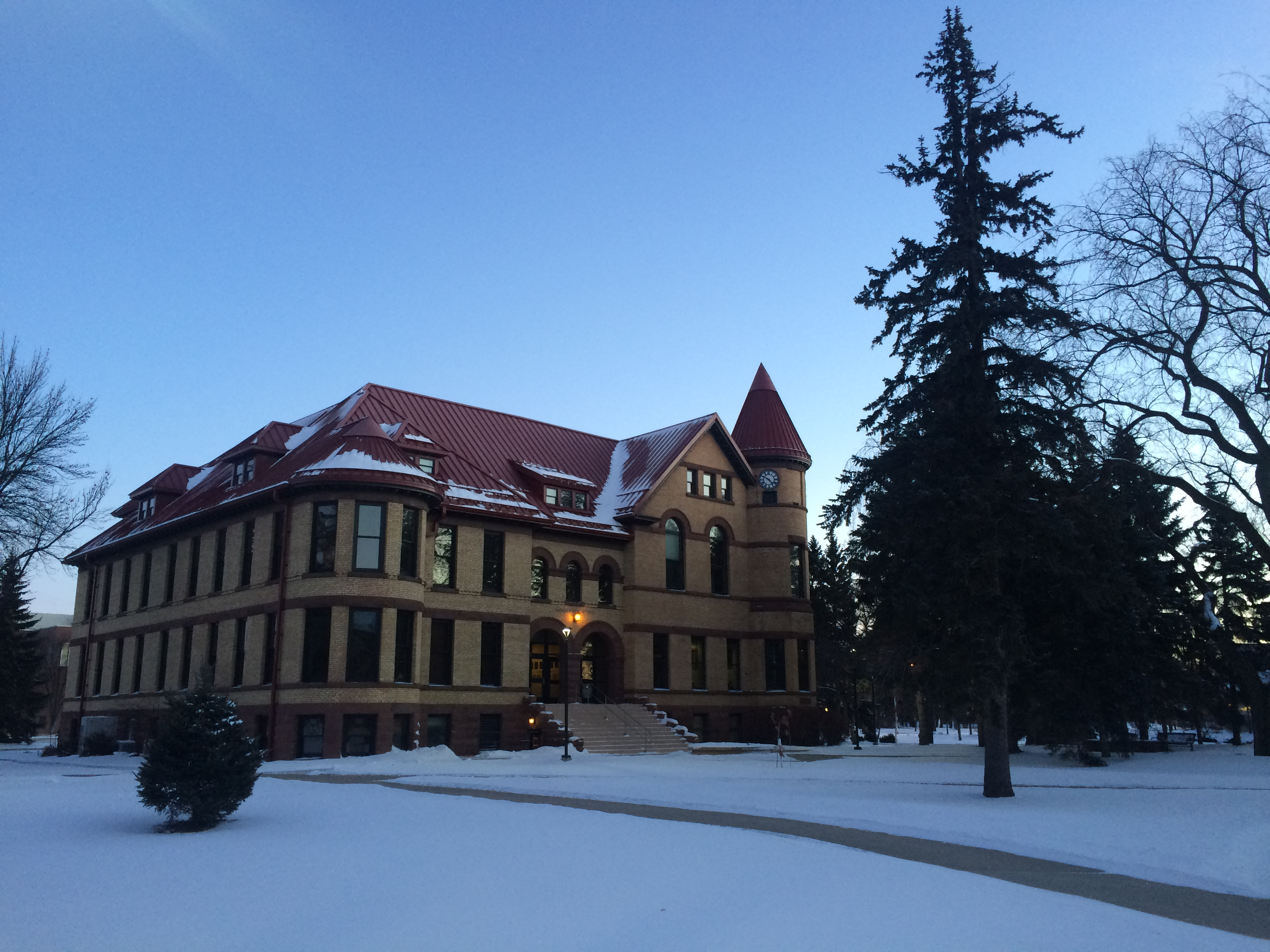 Old Main around 8:00 AM in a Winter Morning